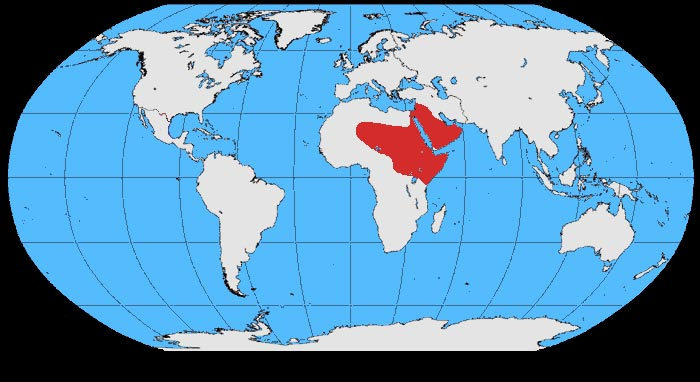 Map showing global distribution of Fan-tailed raven Coruvs rhipidurus